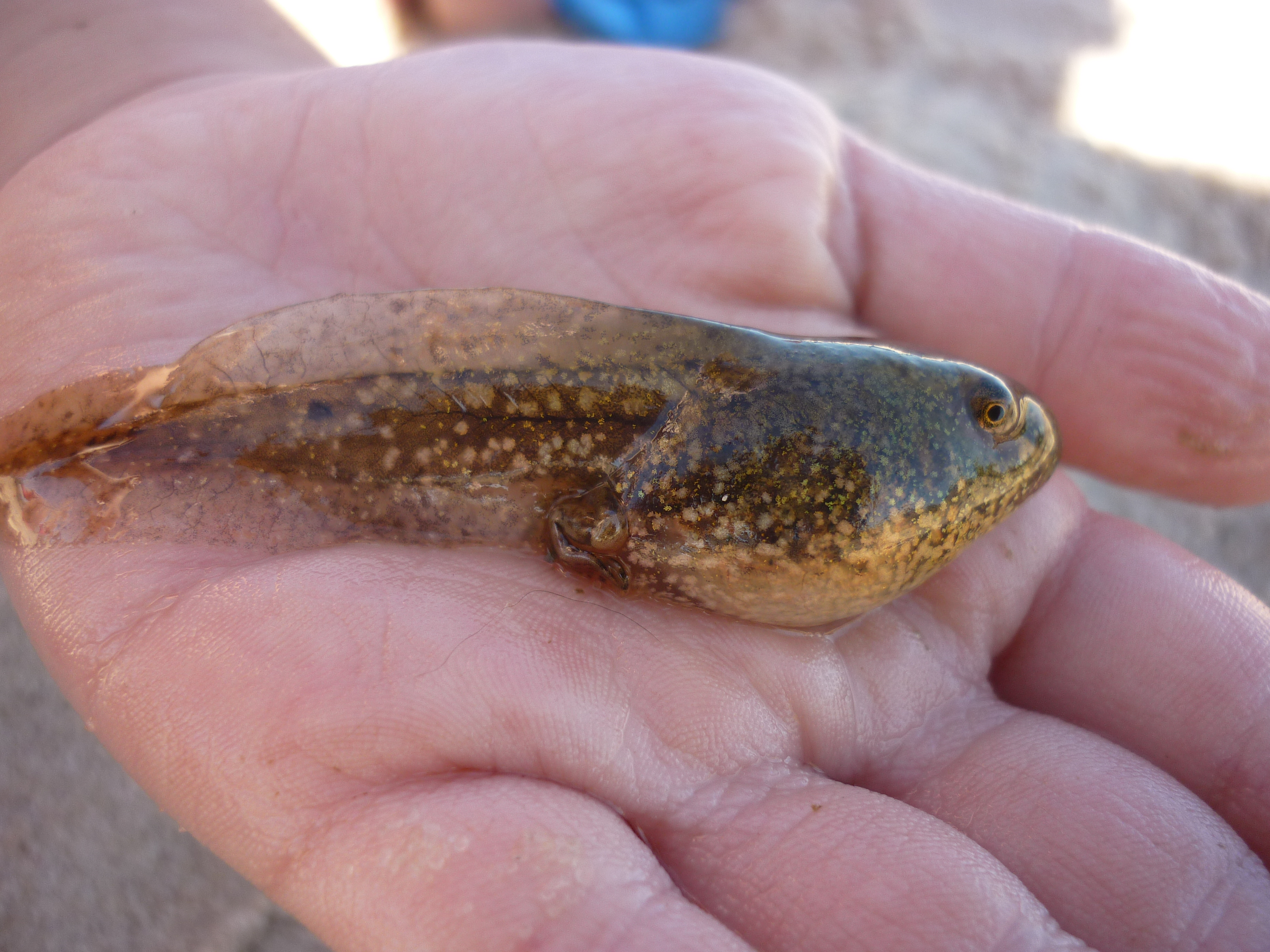 Pelophylax ridibundus